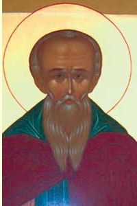 Saint Varlaam of Chikoy. The photo was shot at Kazan Cathedral in Chita in 2004.